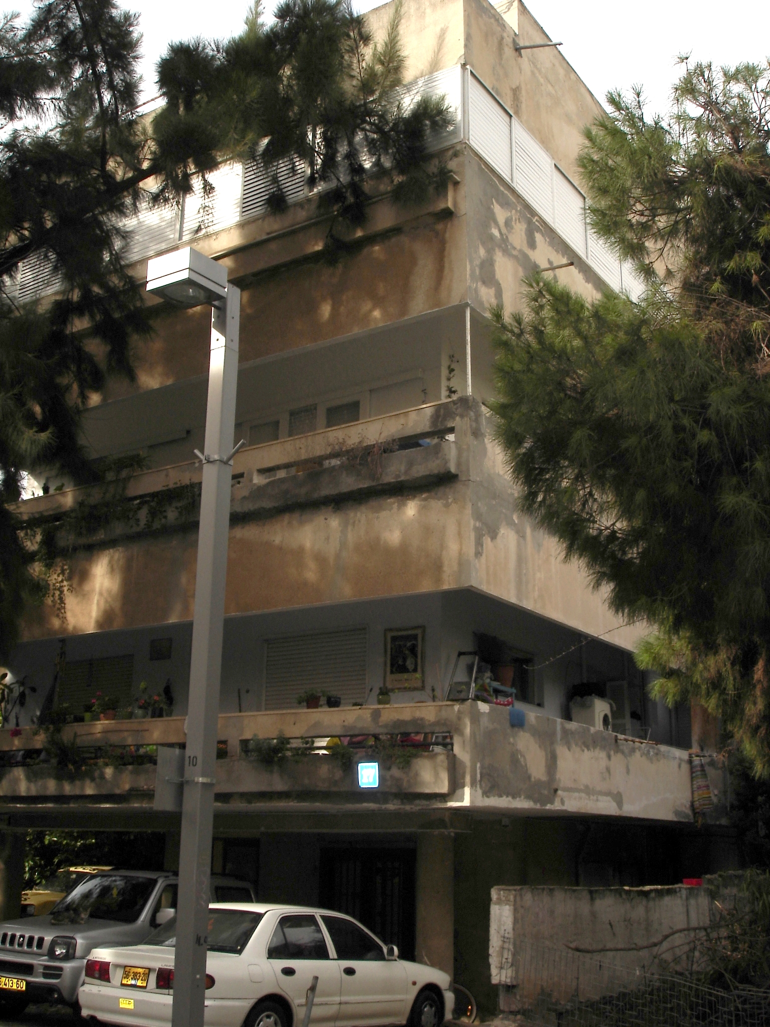 Yerhovsky House, 17 Bialik St, Tel Aviv, built in 1937 by architect Shlomo Ponaroff